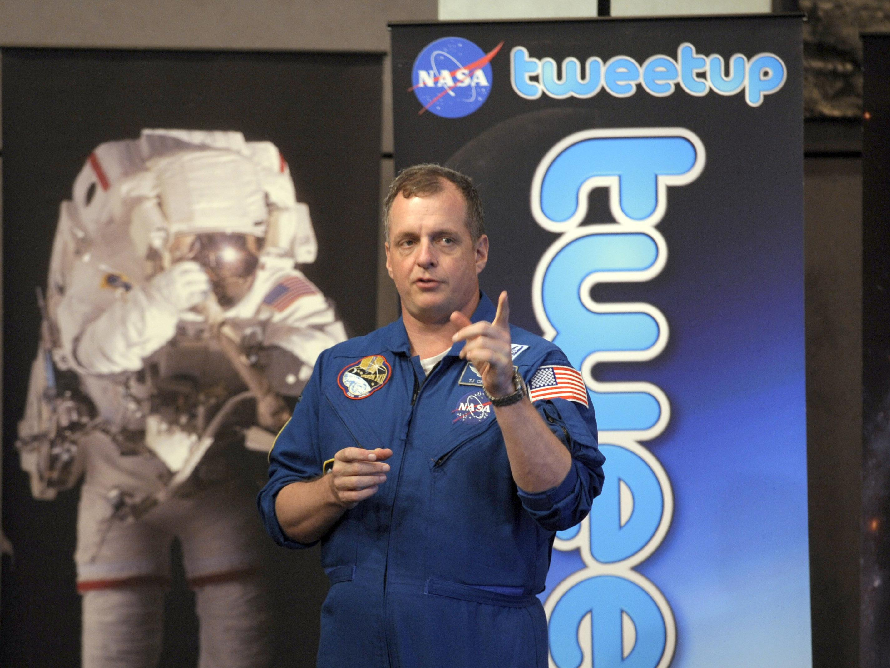 NASA astronaut TJ Creamer talks about his experience in space during a "Tweetup" at NASA Headquarters, Thursday, July 29, 2010, in Washington. Creamer, who spent 161 days living aboard the International Space Station as part of the Expedition 22/23 crew, set up the orbiting outpost's live Internet connection and posted updates about the mission to his Twitter account, sending the first live tweet from orbit.